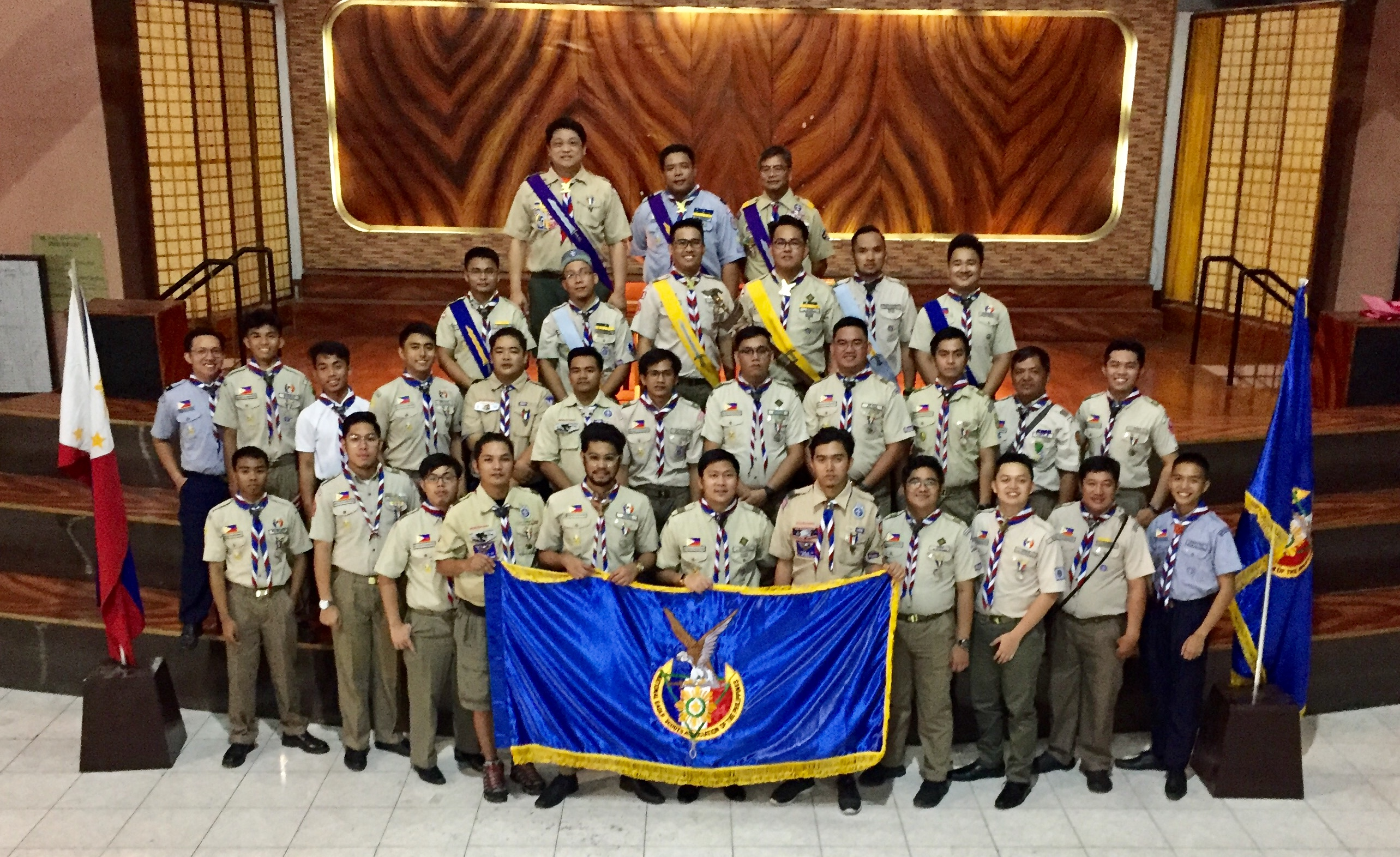 2nd Acceptance Rites